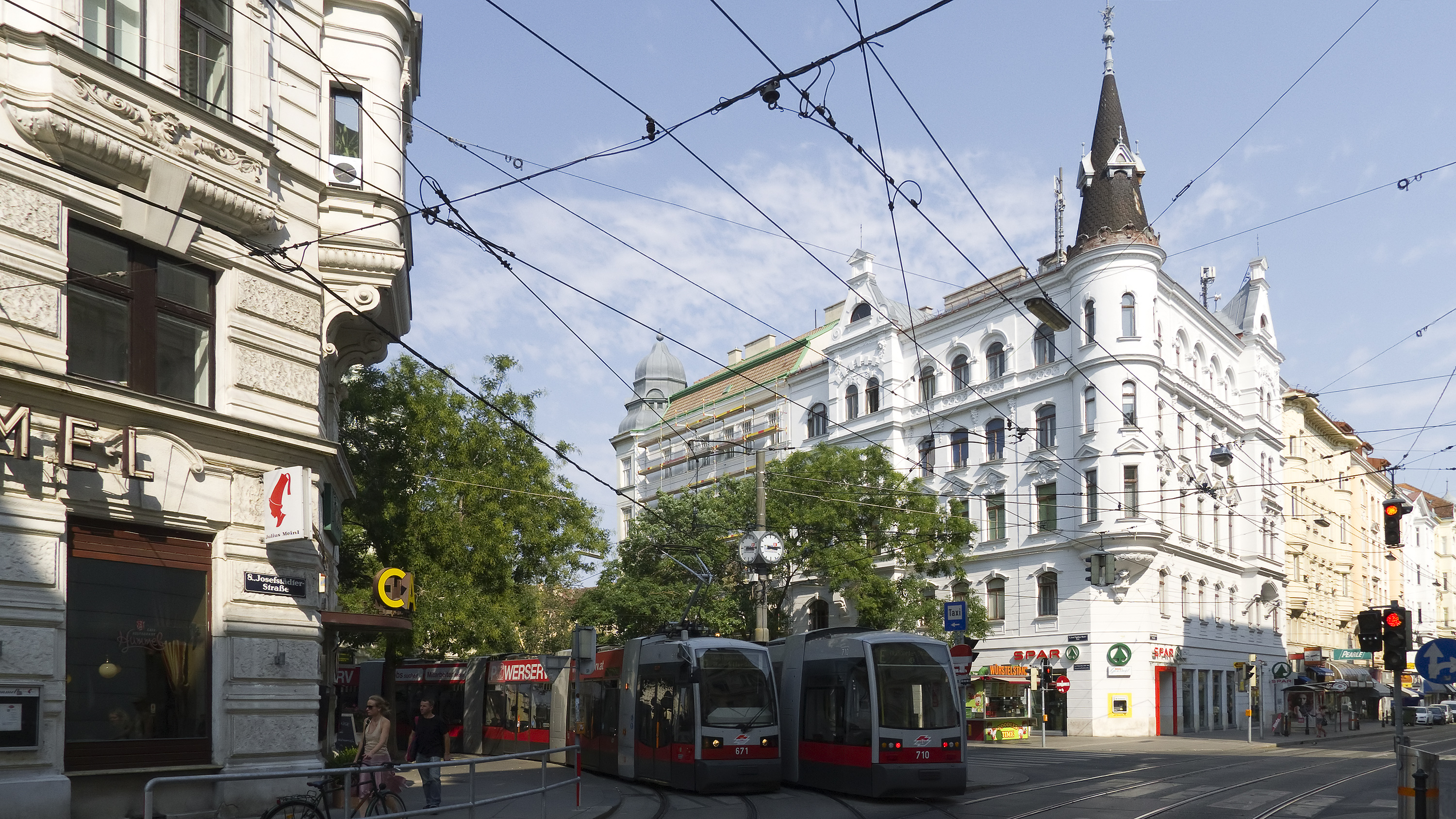 Tram Line Linie 5, Station Albertgasse, Vienna